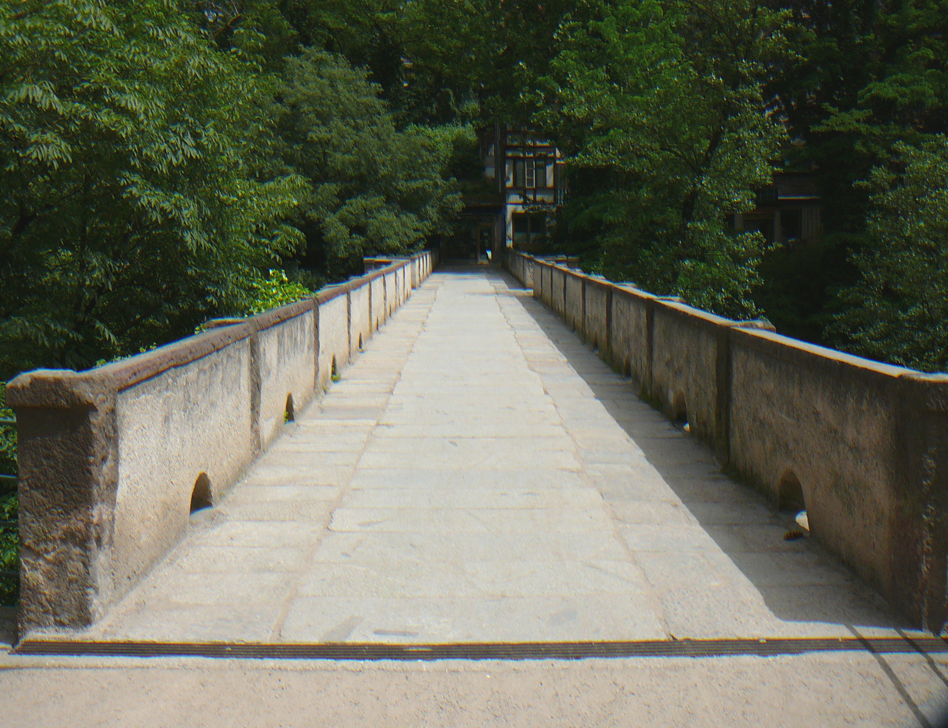 The Steinerner Steg (Stone Footbridge) over the Passer in Meran, South Tyrol. View across the bridge.